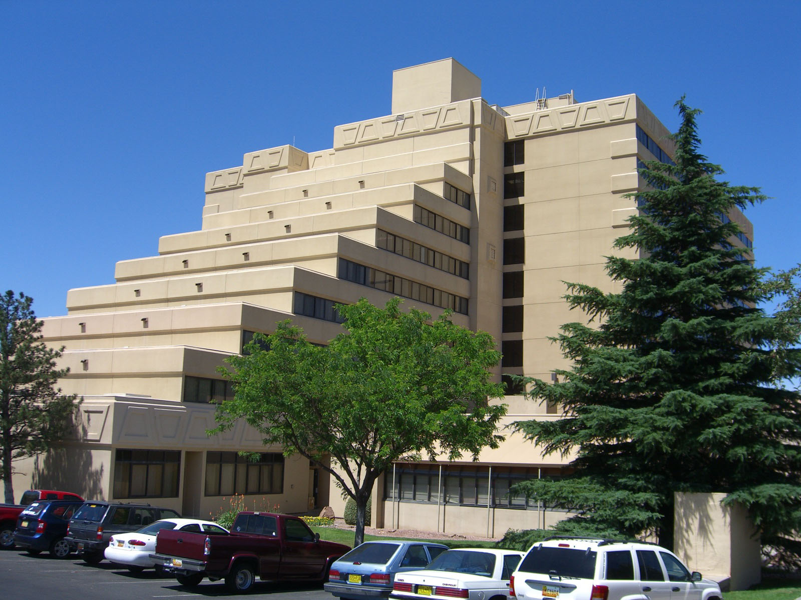 The Courtyard Marriott Pyramid North hotel in Albuquerque, New Mexico.